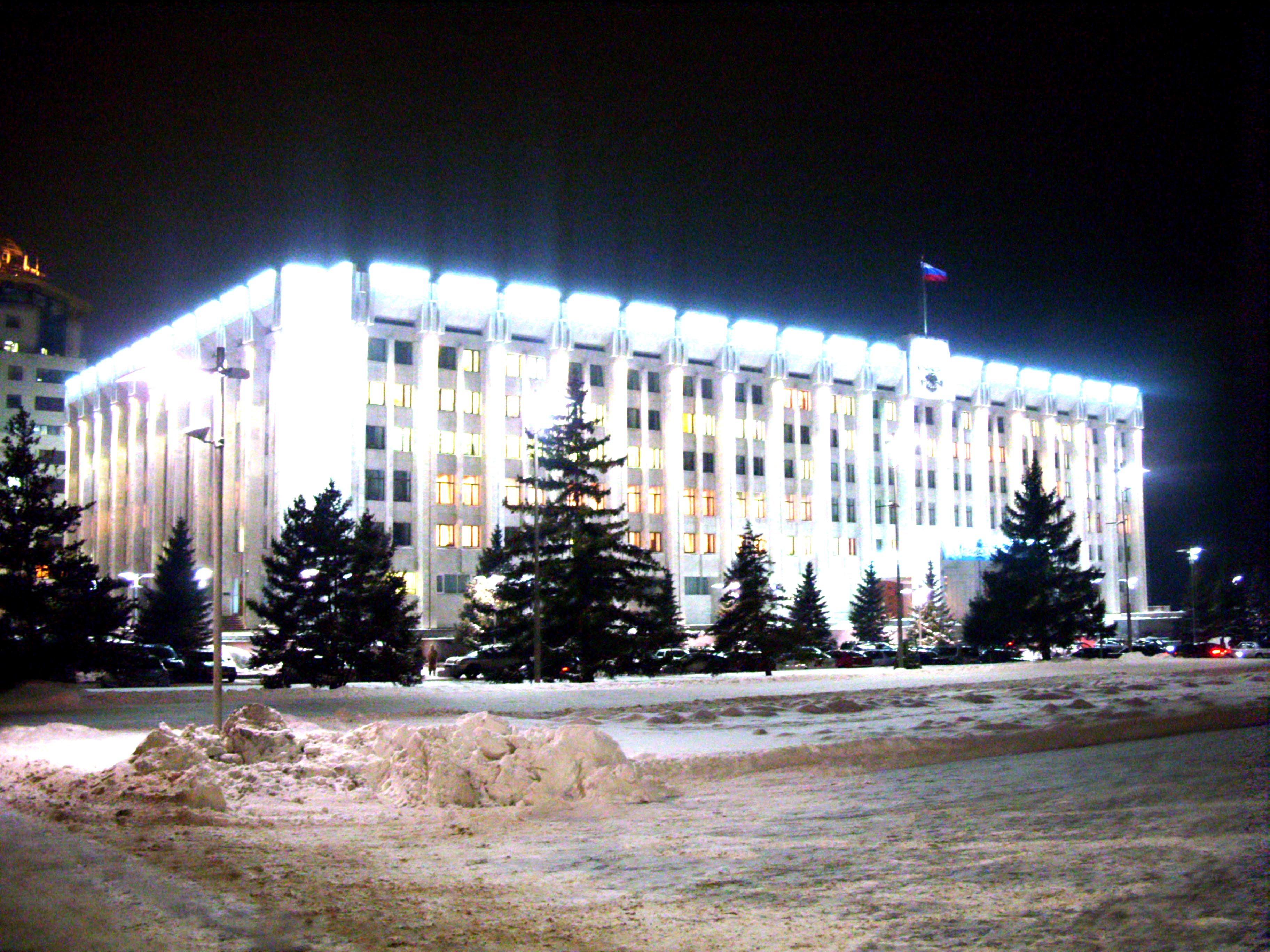 Samara region administration building in Samara